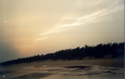 Talsari 2